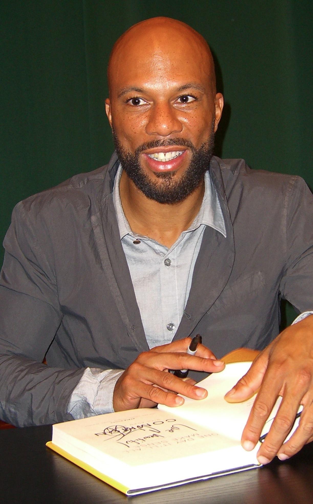 Hip-hop artist and actor Common at a signing for his 2011 book, One Day It'll All Make Sense, held at the Barnes & Noble in Tribeca on the day of the book's release, September 13, 2011. This photo was created by Luigi Novi. It is not in the public domain, and use of this file outside of the licensing terms is a copyright violation.